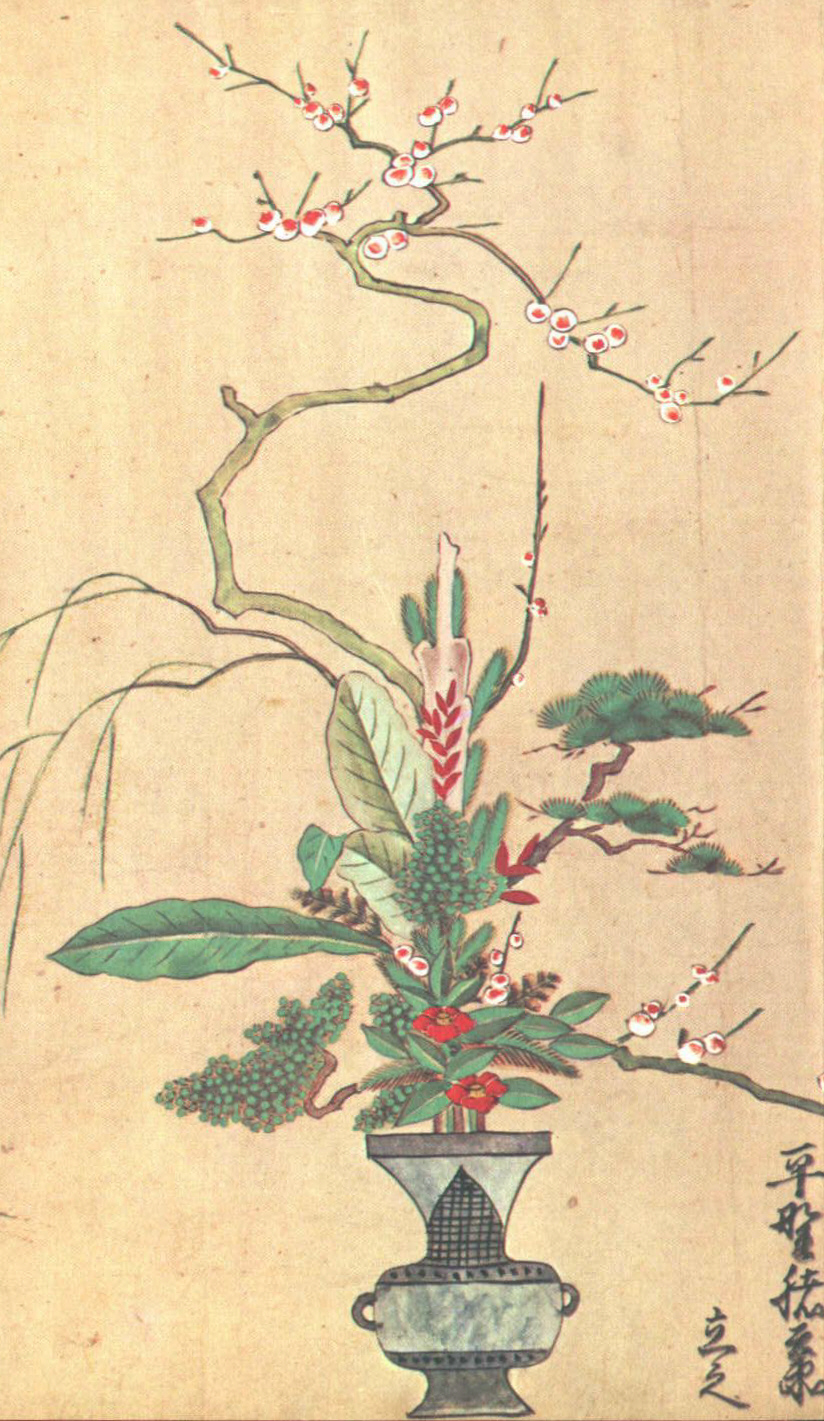 Drawing of a Rikka arrangement